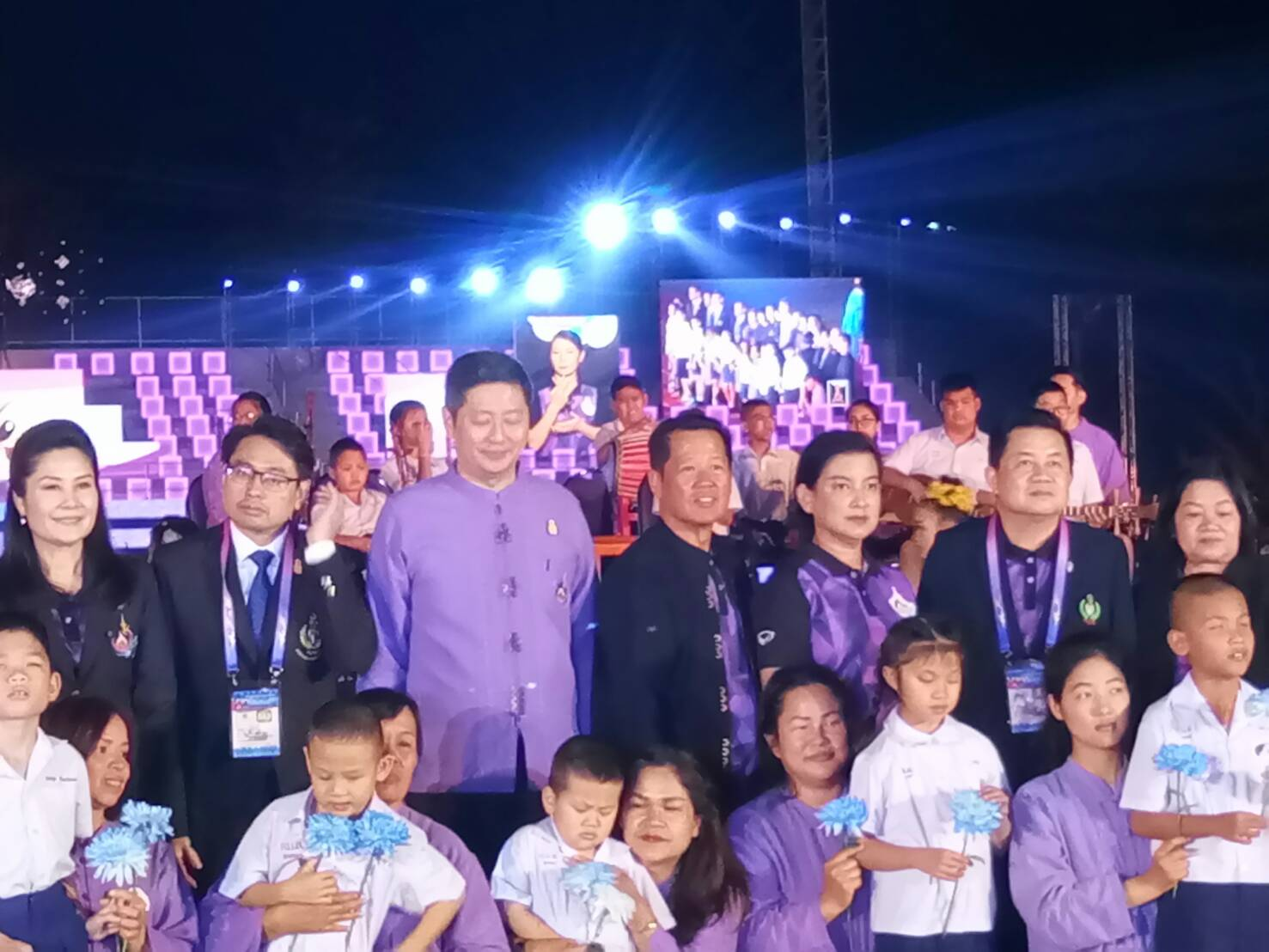 Chalermchai Kositpipat At 36th Thailand Para National Games.